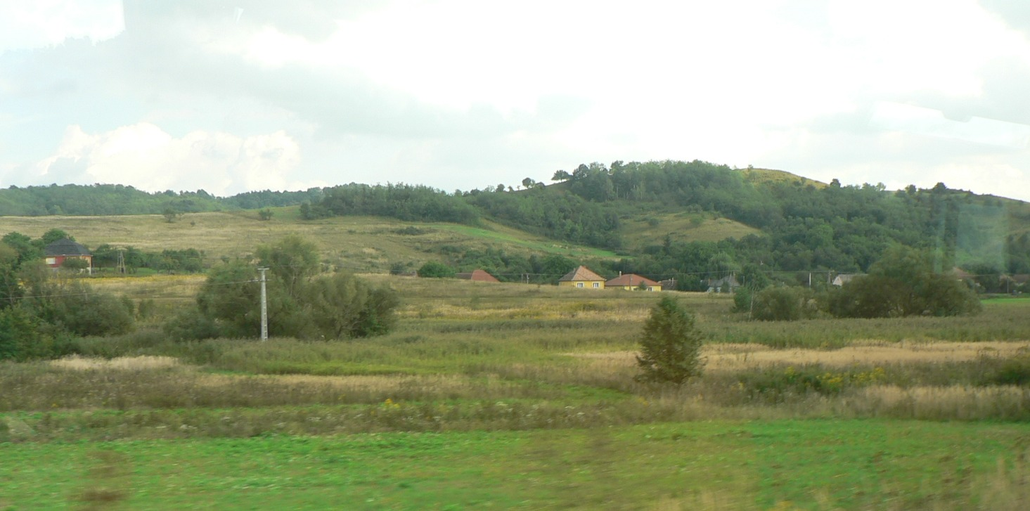 Bükkmogyorósdi táj